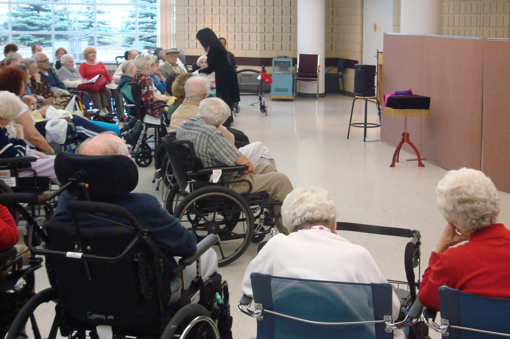 Senior Sorcery presentation of Hocus Pocus for seniors at a senior's residence and community centre in the Greater Toronto Area.